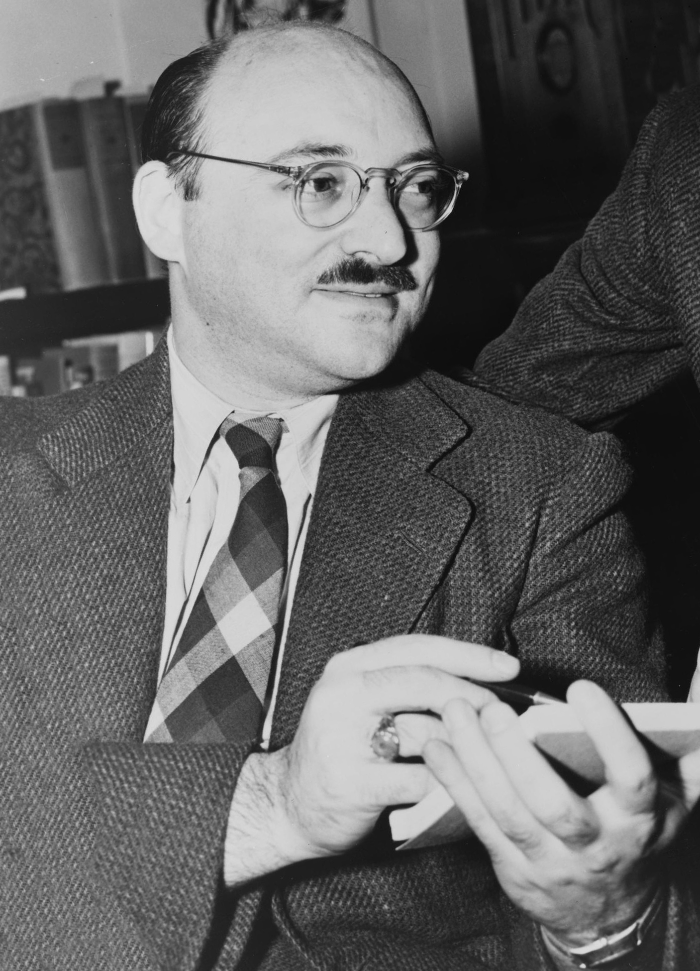 Ellery Queen (left), American mystery writer, and James Yaffe